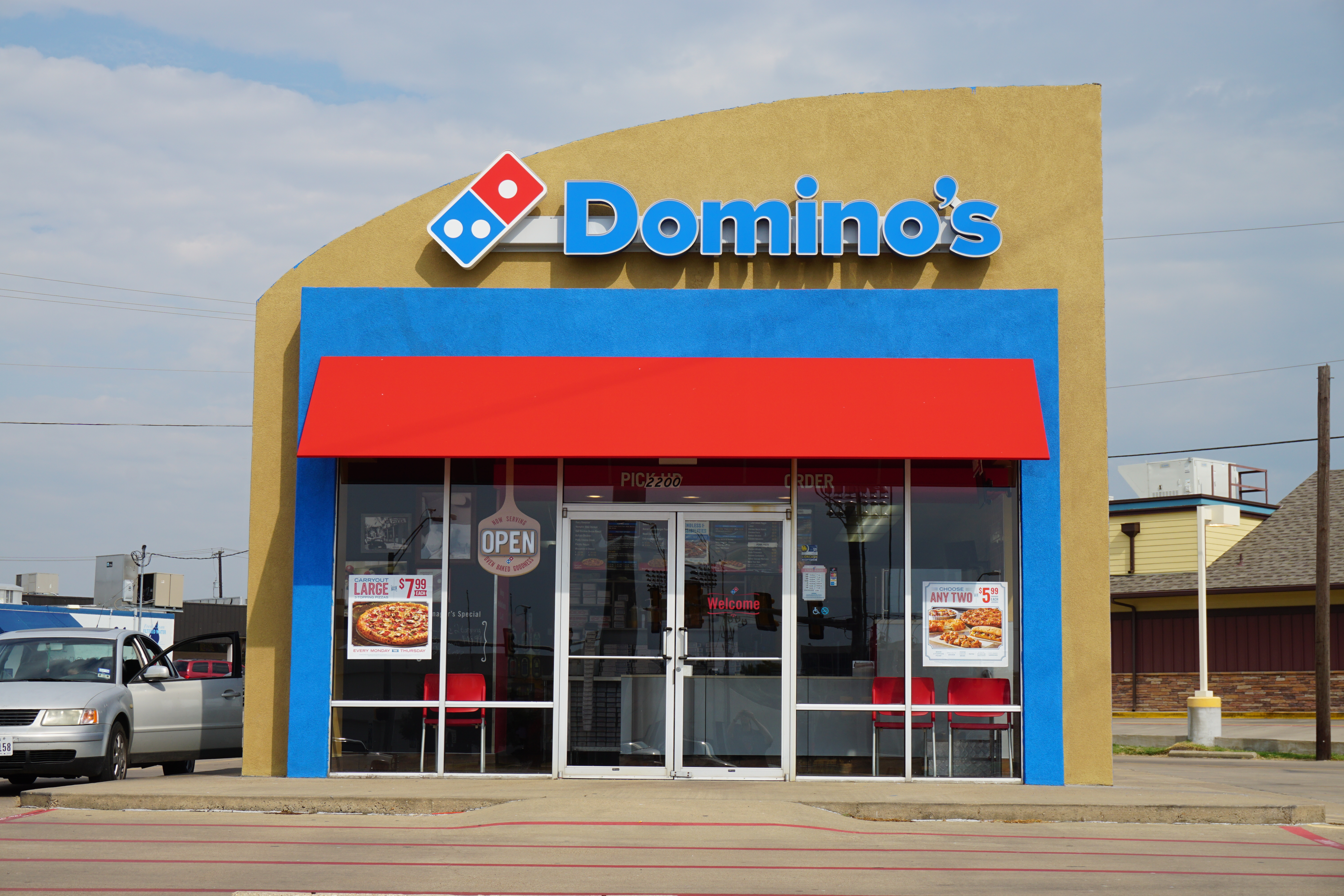 Domino's in Commerce, Texas (United States).